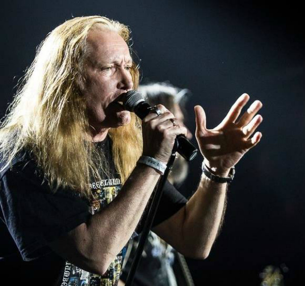 MASTER 21.05.17. Aurora Concert Hall